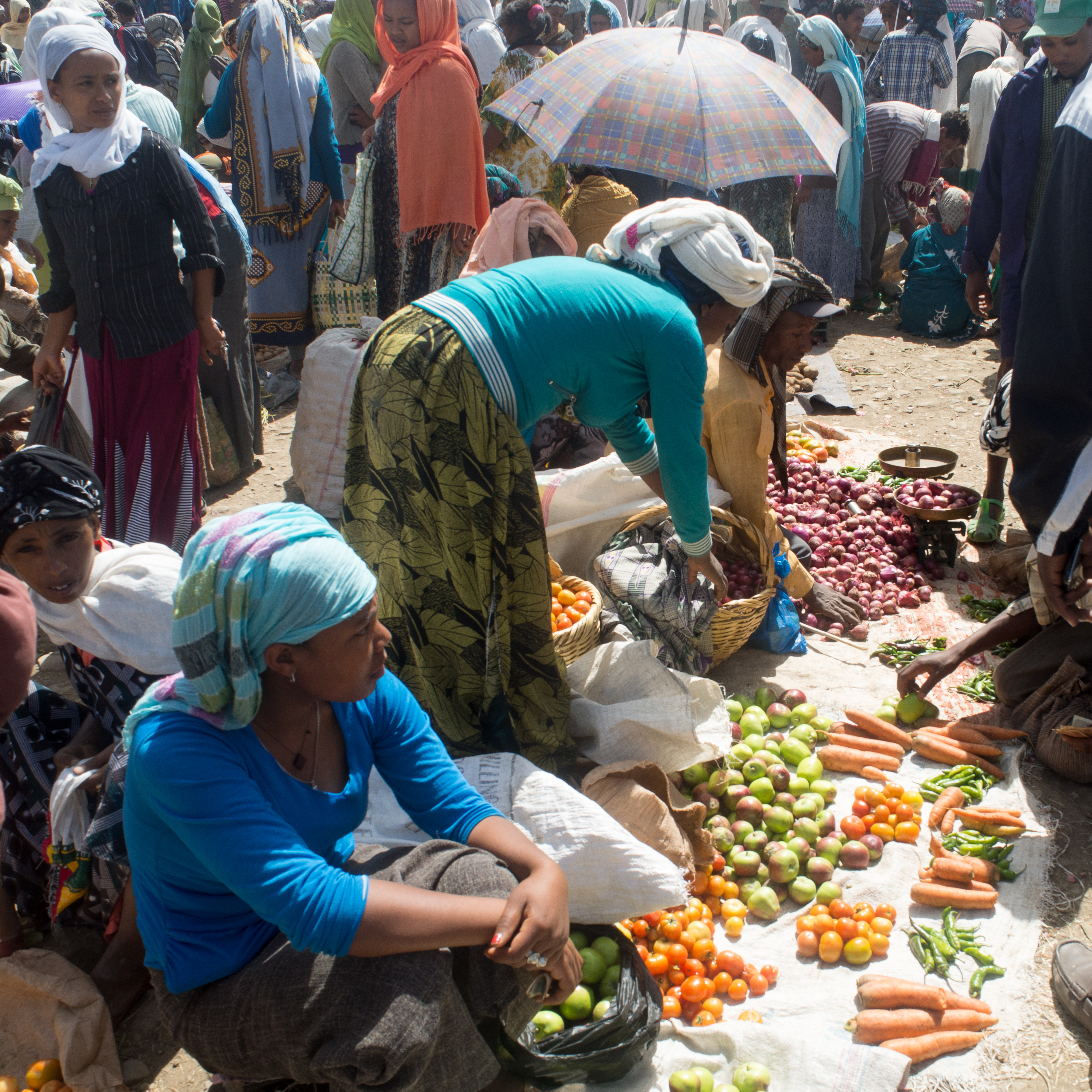 Vegetable seller in Saturday market of Ankober, Ethiopia This is an image of food from Ethiopia